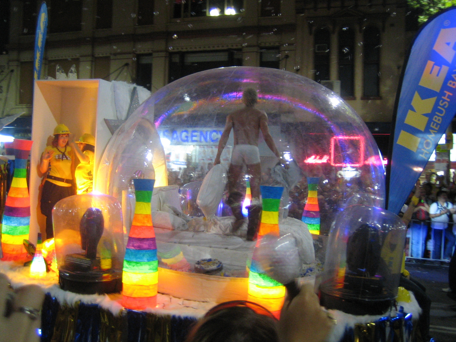 a "light bulb" performance in the Sydney Gay and Lesbian Mardi Gras 2006